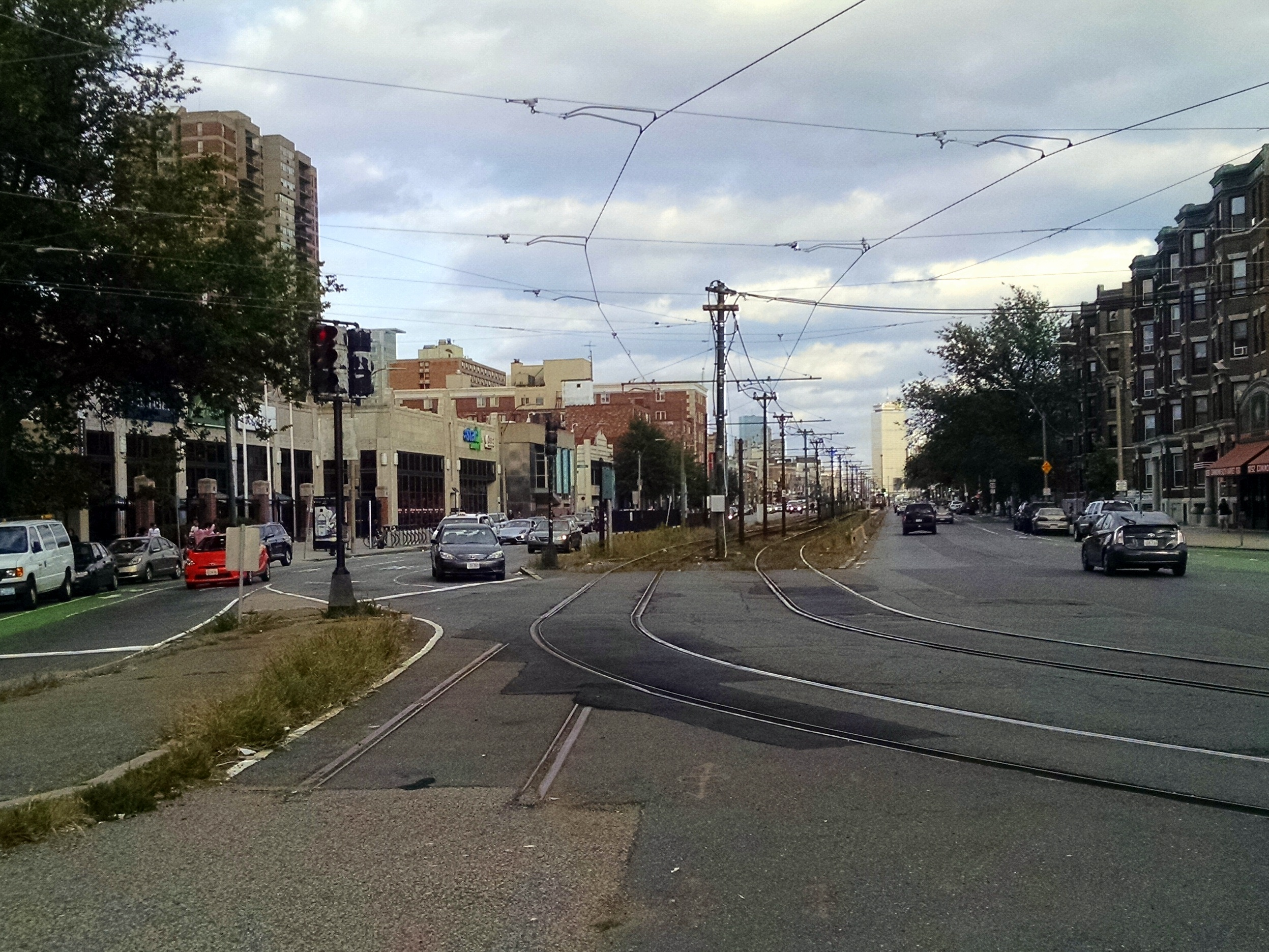 Former A Branch turnoff at Packard's Corner. The line was finally abandoned in 1994; a several-hundred-foot stub track was left until the mid-2000s to temporarily store disabled trains. The switch was disconnected during track work in 2014, as shown here.